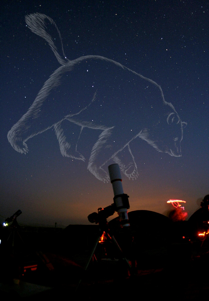 Ursa Major (Latin: "Larger Bear"), also known as the Great Bear, is a constellation visible throughout the year in most of the northern hemisphere. It can best be seen in April. It is dominated by the widely recognized asterism known as the Big Dipper or Plough, which is a useful pointer toward north, and which has mythological significance in numerous world cultures.